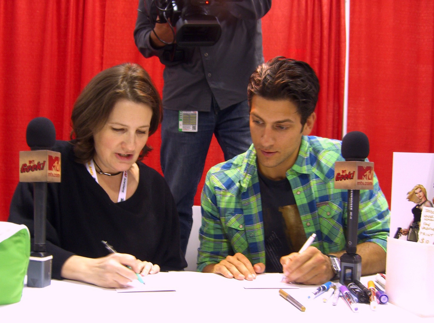 Comics creator Amanda Conner and MTV personality Kenny Santucci being filmed for an MTV segment in Artists Alley on Day 3 of the 2012 New York Comic Con, Saturday October 13, 2012 at the Jacob K. Javits Convention Center in Manhattan. This photo was created by Luigi Novi. It is not in the public domain, and use of this file outside of the licensing terms is a copyright violation.